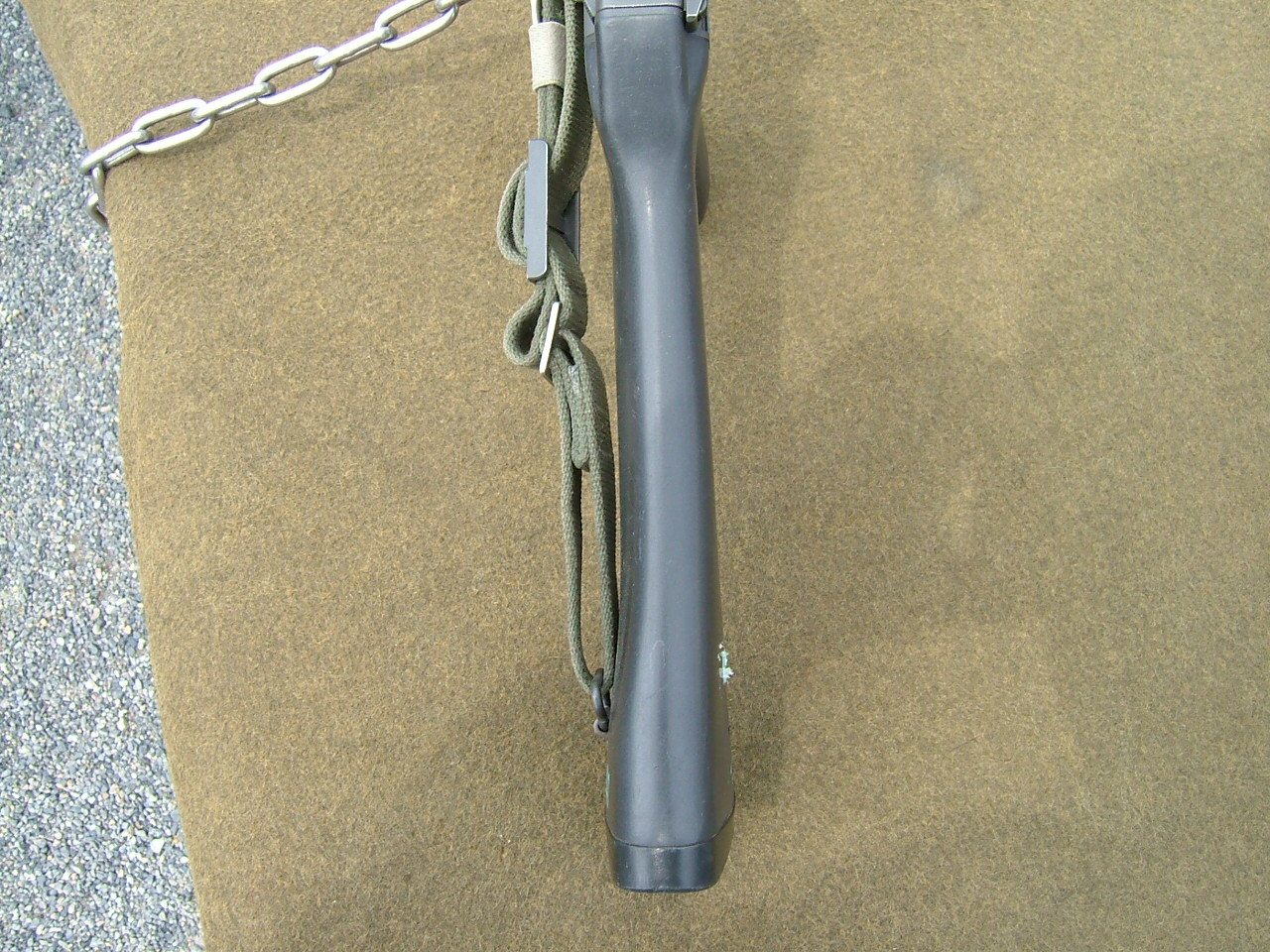 Image that takes a picture of stock of type89 5.56mm rifle on